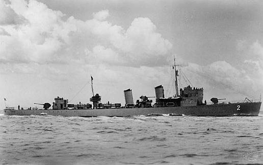 Postcard picture of the Swedish destroyer HMS Nordenskjöld (12).